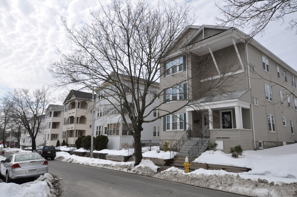 Ingleside Avenue Historic District, Worcester, Massachusetts. The district contains two contributing buildings: 218-220 (on the right) and 226-228 (third from right) Ingleside Ave.